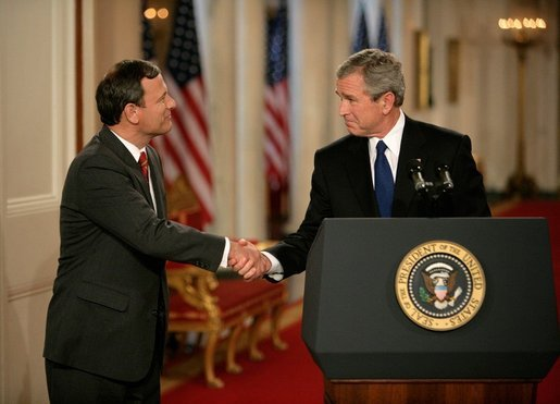 President George W. Bush shakes hands with his Supreme Court Justice Nominee John Roberts after his remarks on the State Floor of the White House, Tuesday evening, July 19, 2005.